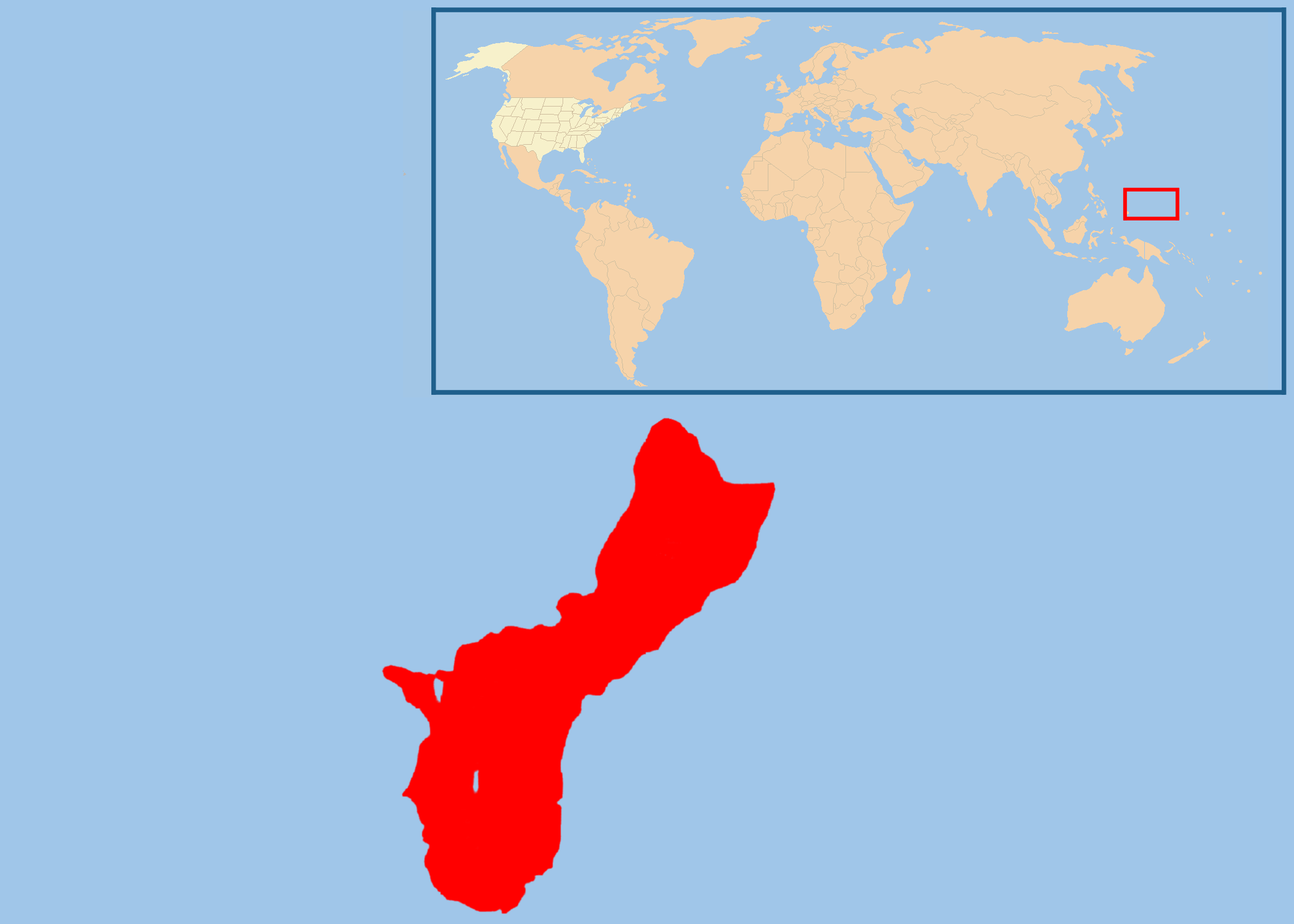 Map of USA highlight Guam